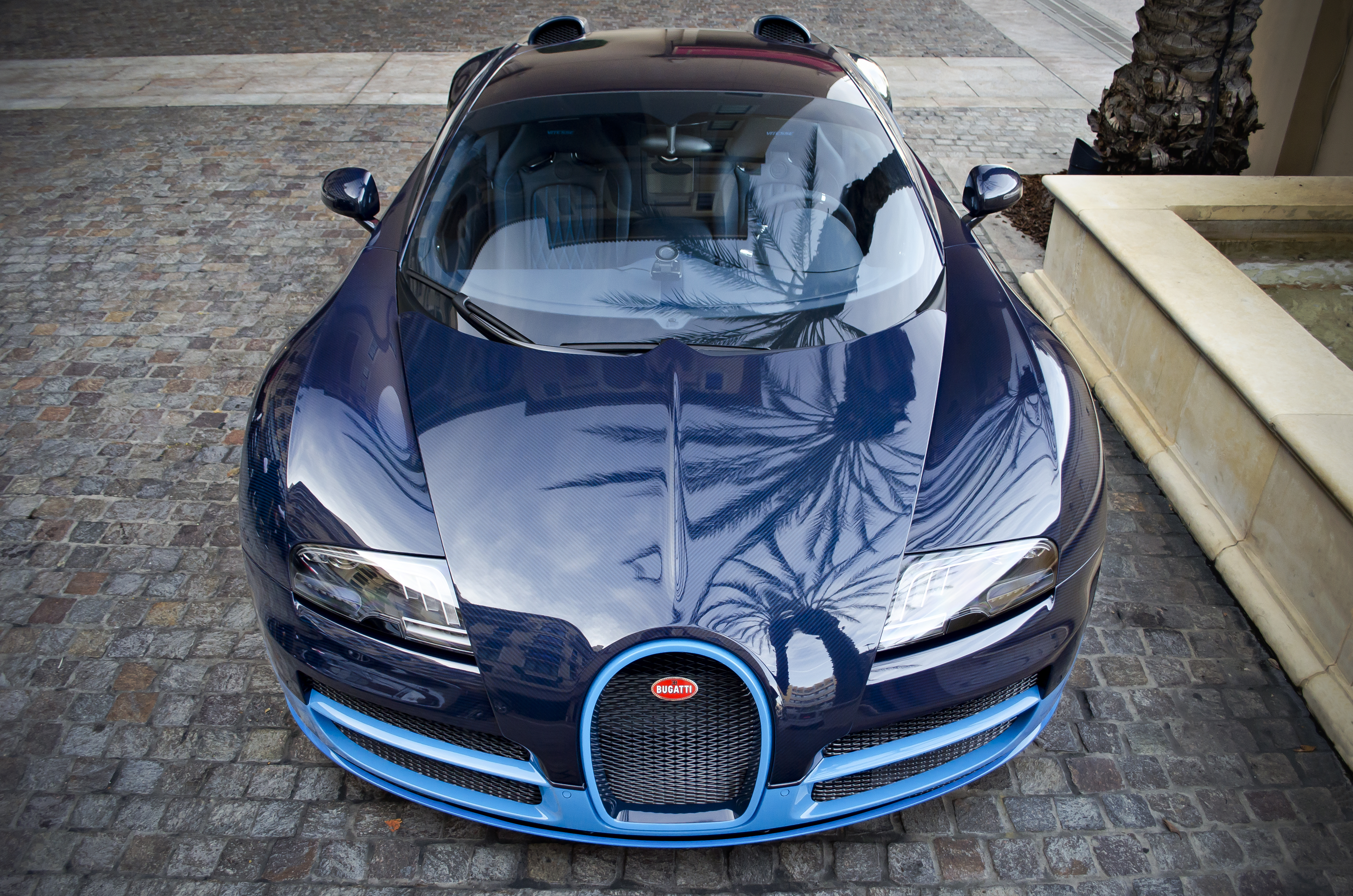 Blue Bugatti Veyron Grand Sport Vitesse spotted in Beverly Hills. Finally found the Bleugatti yesterday along with another Grand Sport.